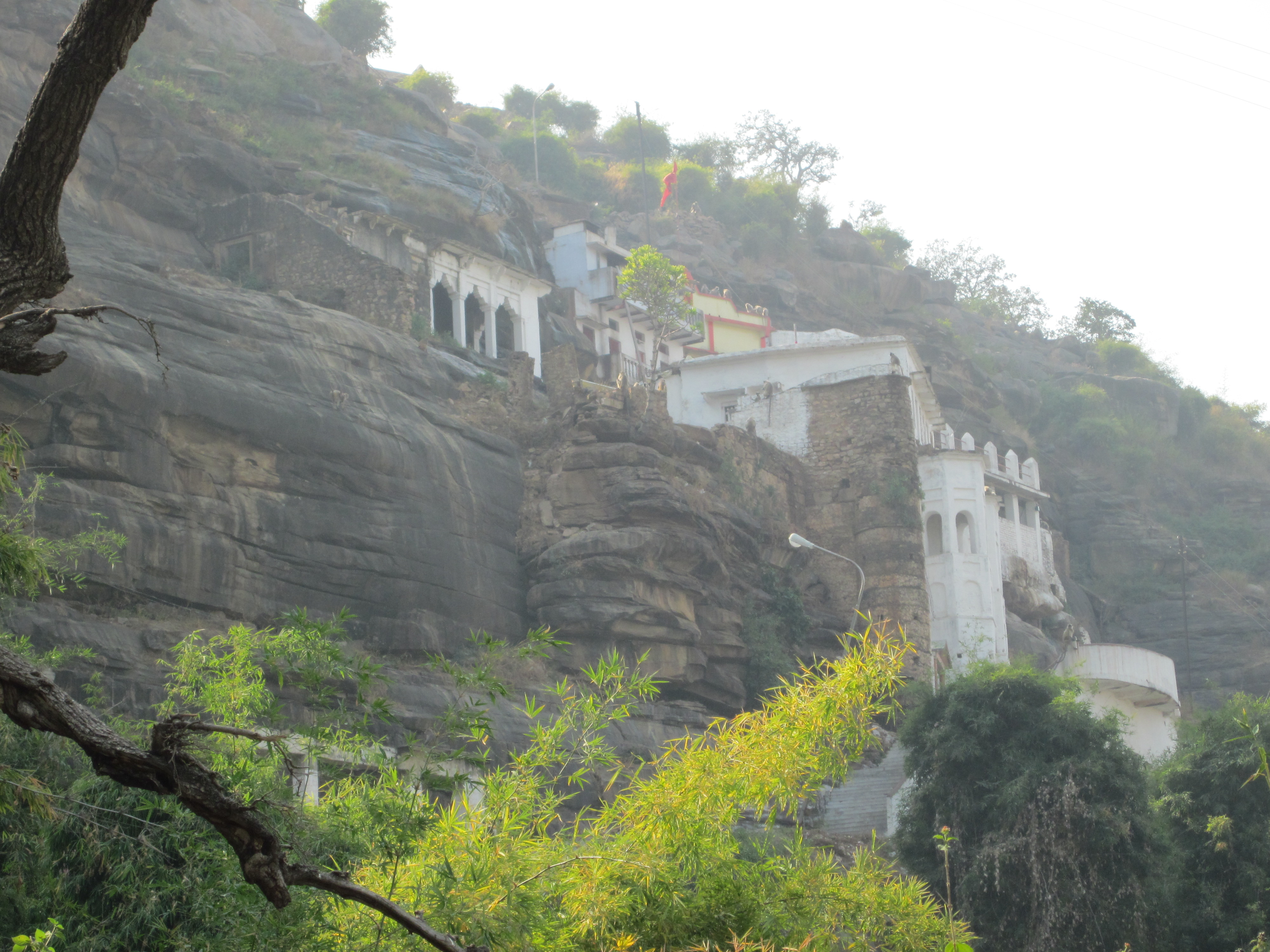 Temples in Panchmukhi Hanuman Dhara